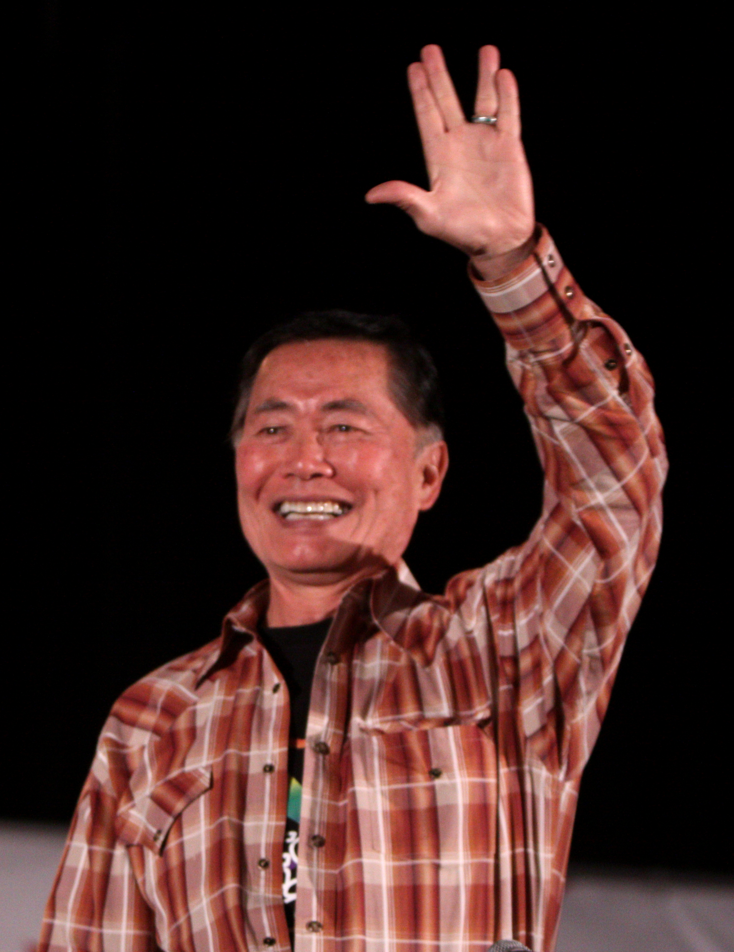 George Takei at the 2011 Phoenix Comicon in Phoenix, Arizona.